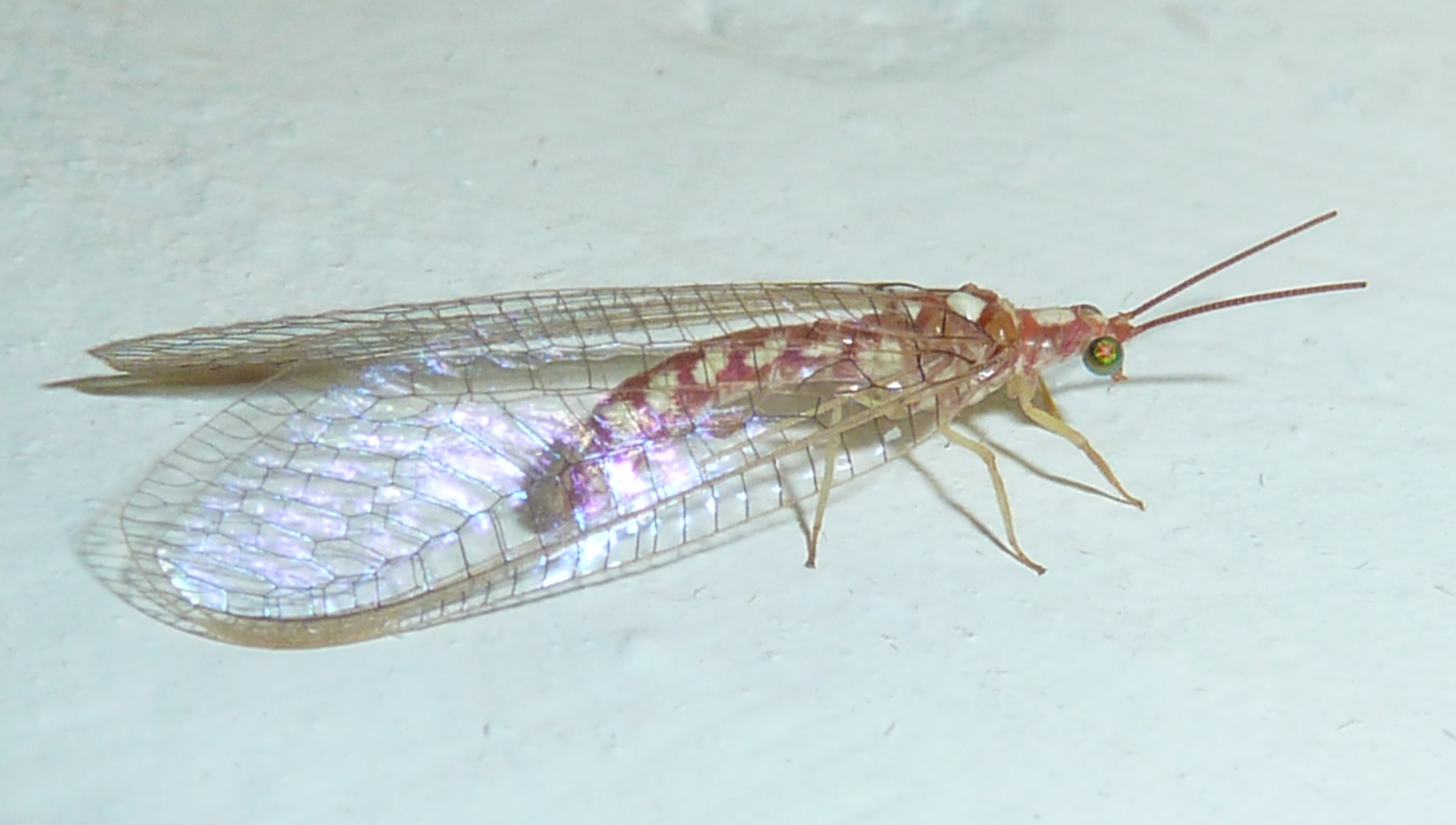 A Red lacewing attracted to artificial light in suburban Pretoria, South Africa